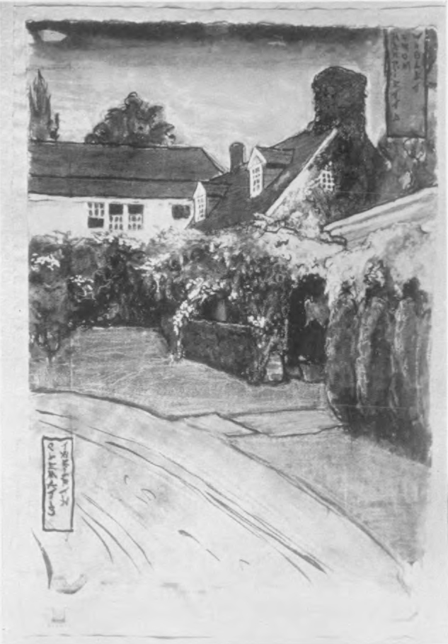 The Red Rose b&w reprint of painting of exterior of house by Violet Oakley